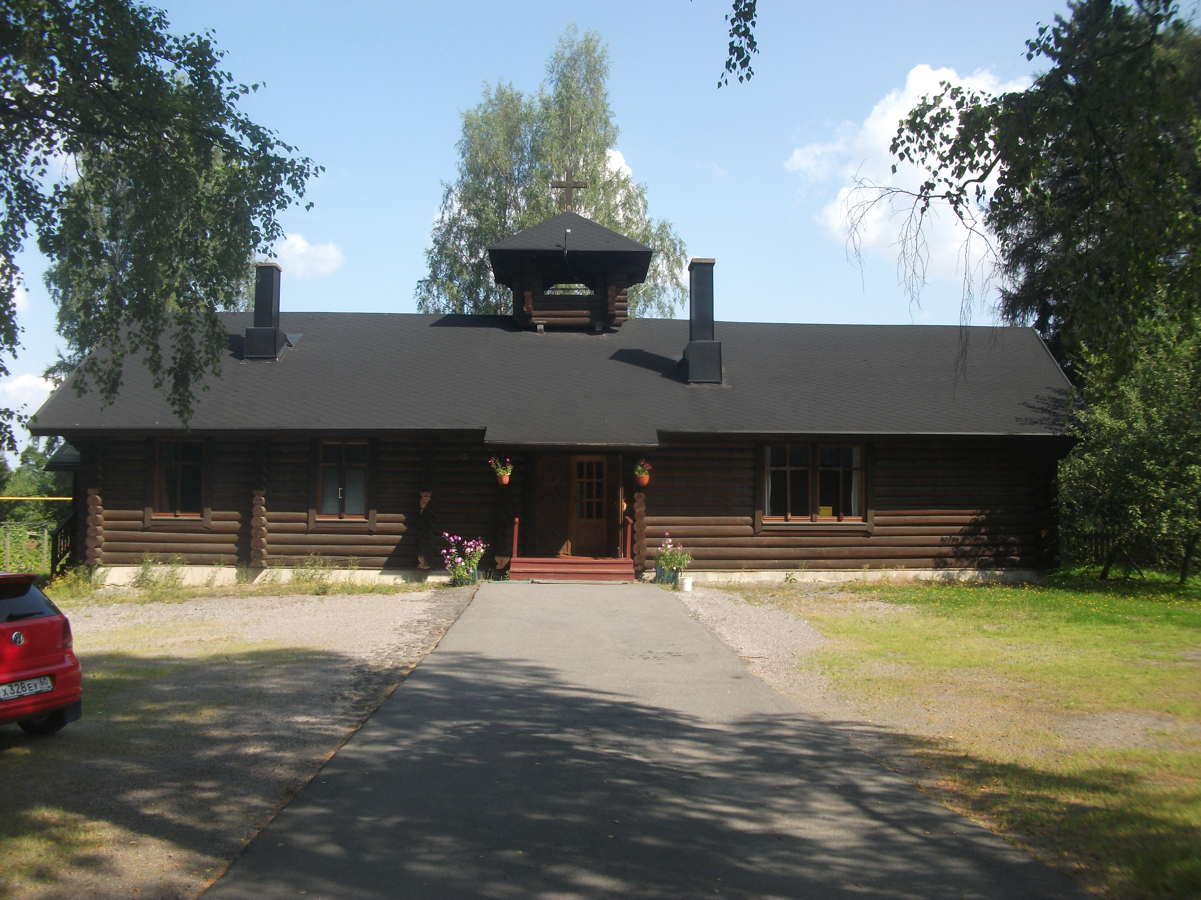 Ykki, the lutheranian church